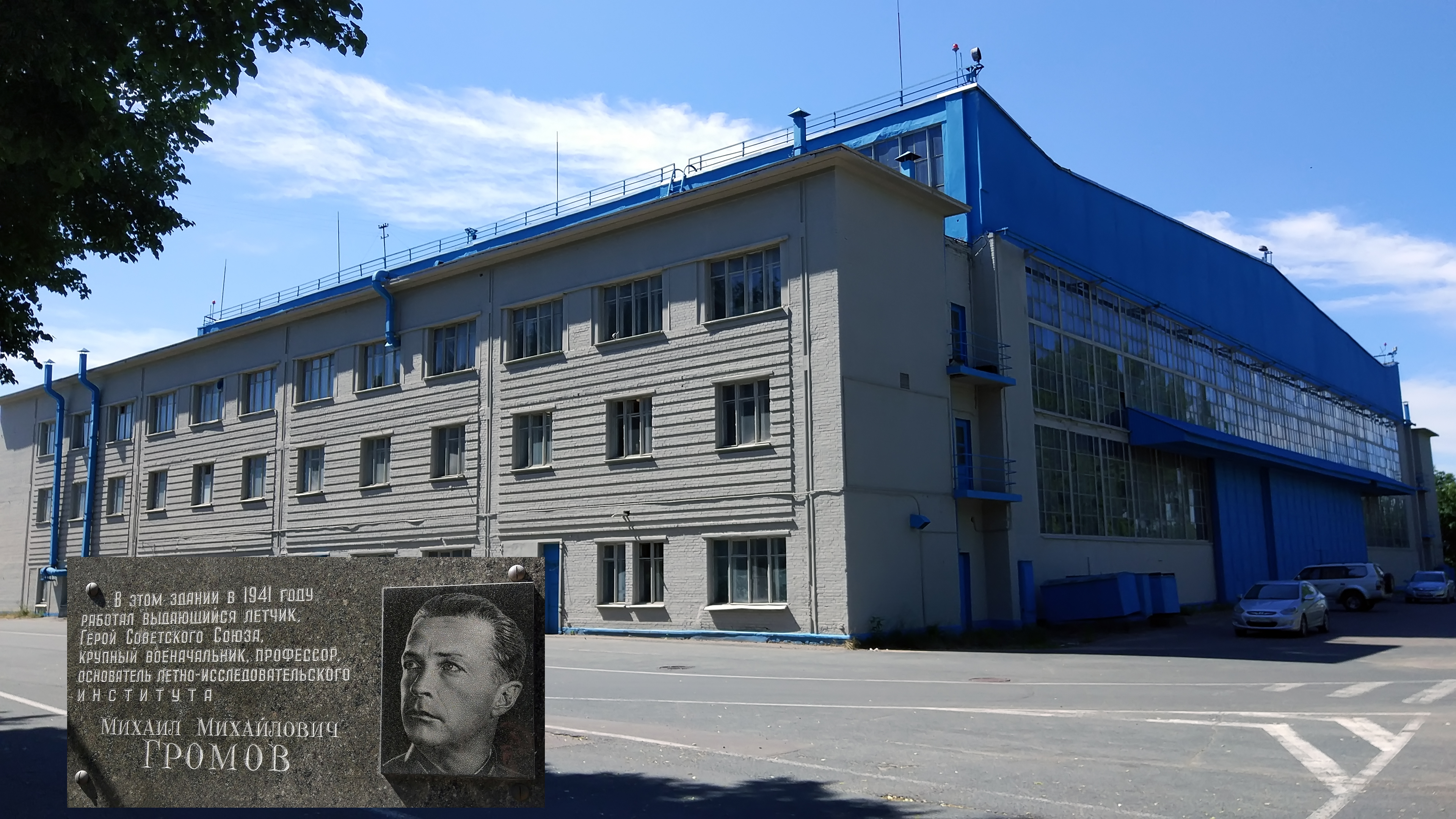 Mikhail Gromov memorial plate on the Gromov Flight Research Institute hangar 1